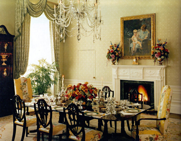 White House President's Dining Room during the administration of William Jefferson Clinton. Clinton Presidential Center, NARA.